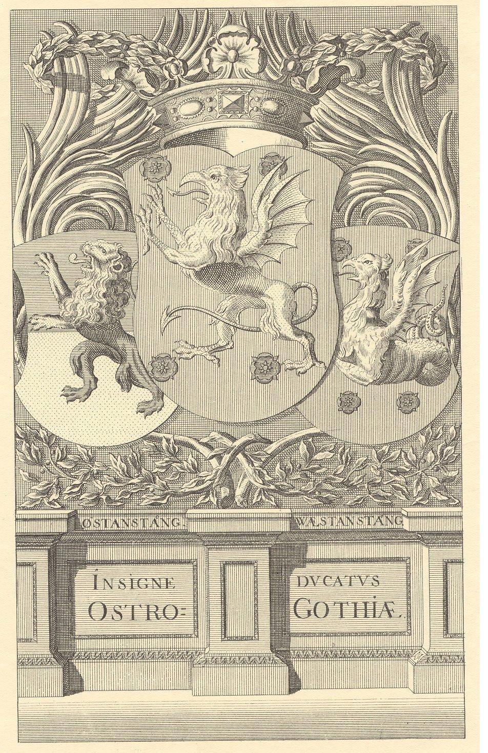 Insigne Ducatus Ostro-Gothiae